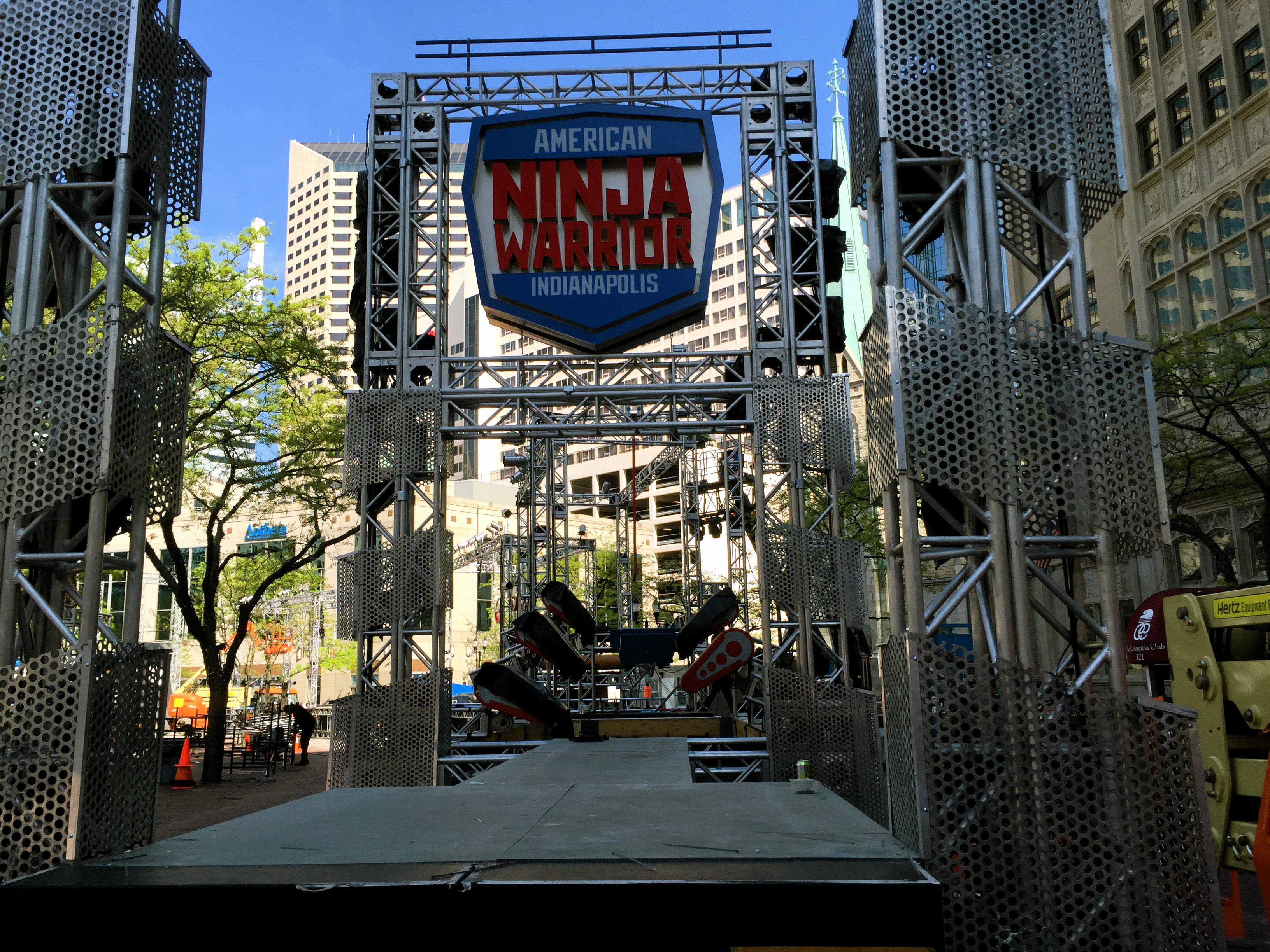 The entrance to the Indianapolis City Qualifier and City Finals course, under construction at least two days prior to the competition, during American Ninja Warrior season 8. The Floating Steps obstacle can be seen past the entrance sign and some of Monument Circle can be seen in the background.